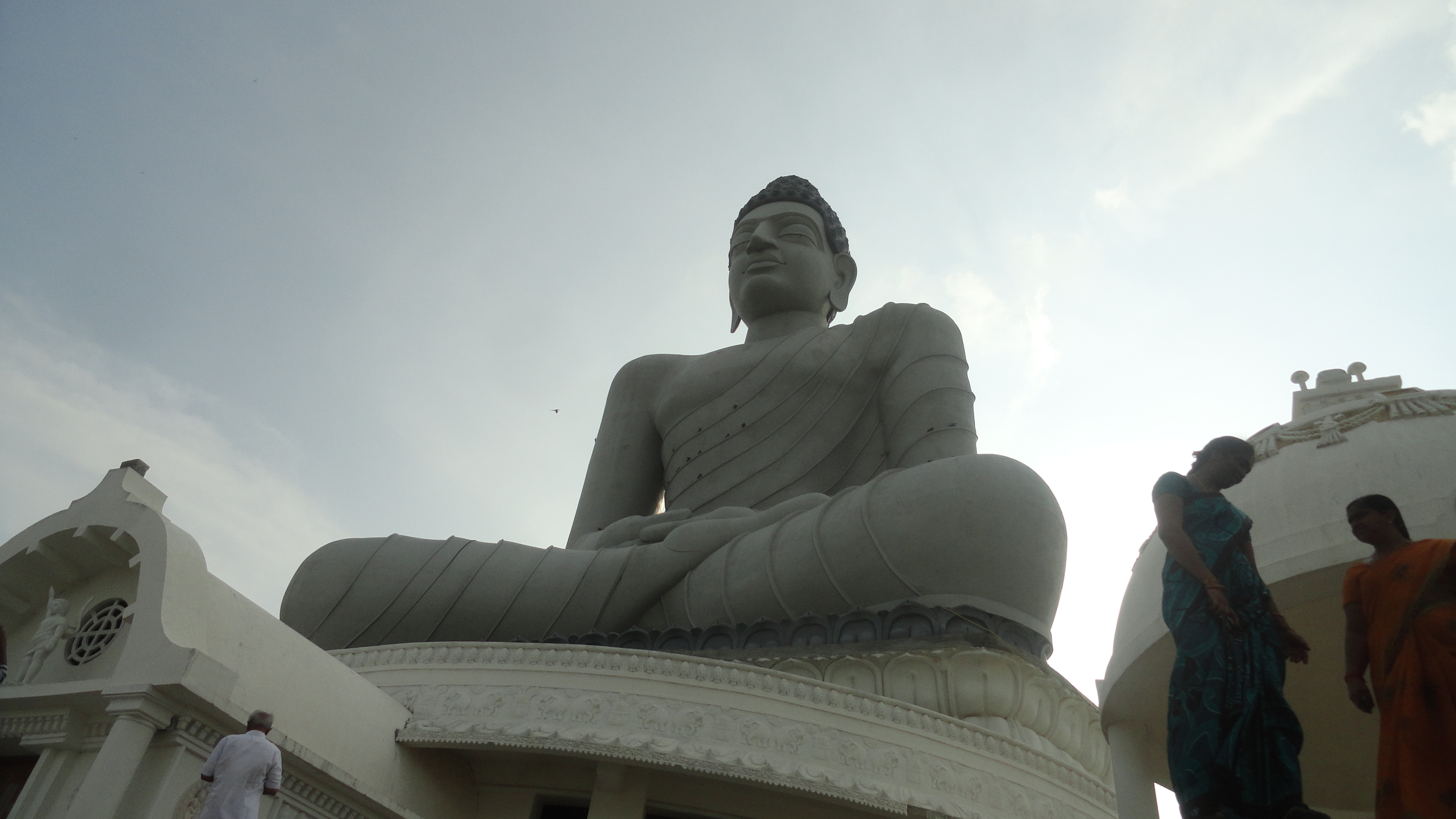 Buddha statue front. Amaravati